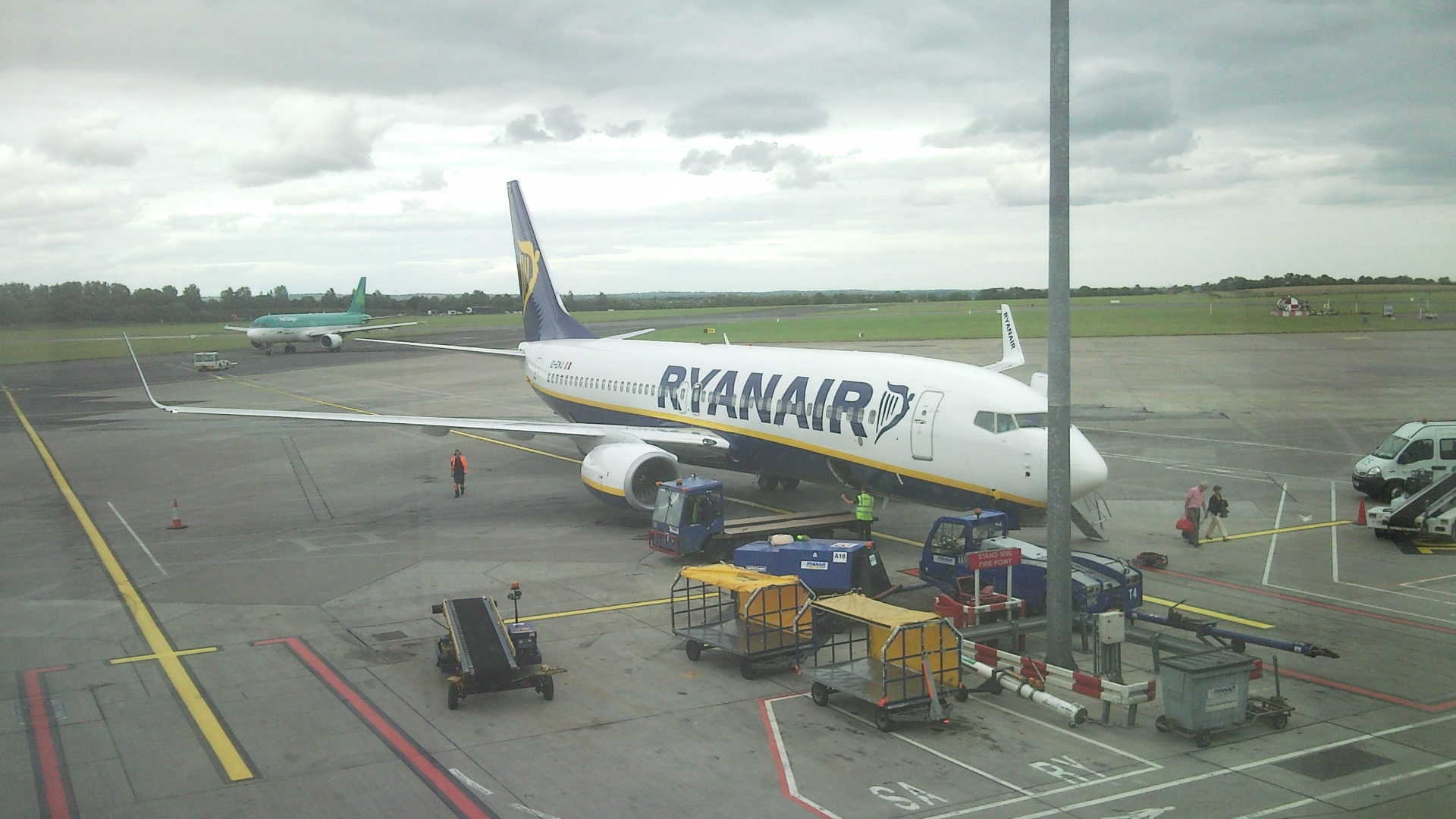 FR6143 for Almeria at Dublin Airport